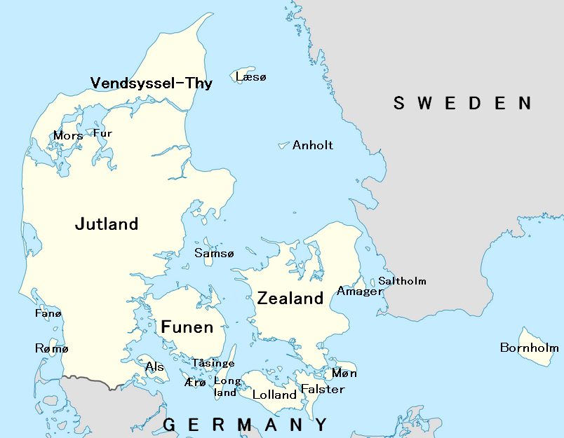 A Denmark map showing the Jutland (or Jylland) peninsula and naming notable islands.